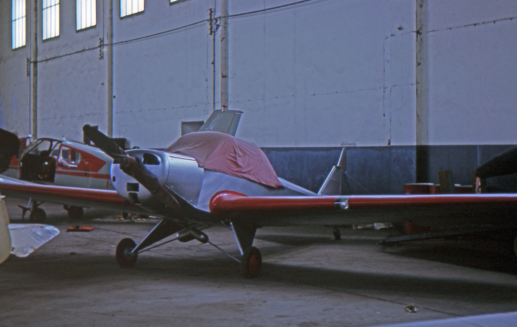 Meteor FL.54 three-seat light aircraft at Milan (Bresso) airfield in 1965